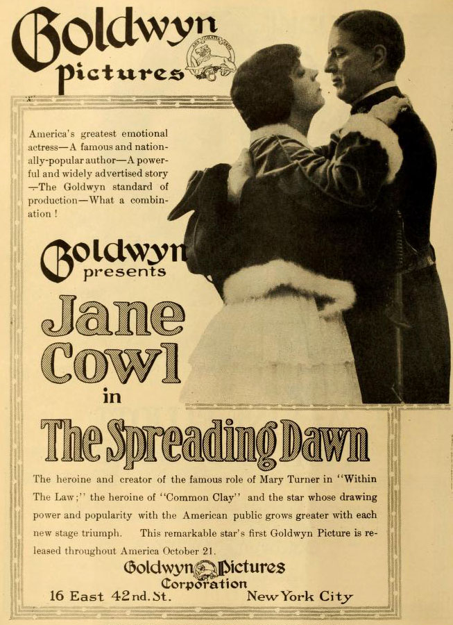 Advertisement in Moving Picture World for the American film The Spreading Dawn (1917) with Jane Cowl and Orme Caldara.